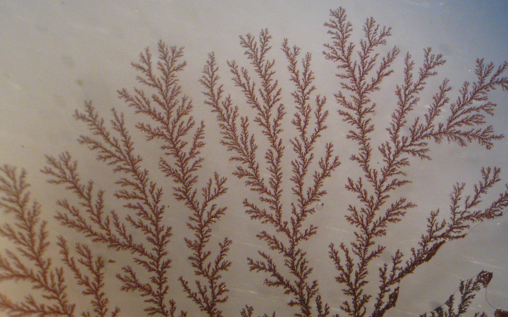 This is a photo of dendritic copper crystals, at 20x magnification. Taken with my Canon SX110 IS, through a Novex stereo microscope with lighting from above. The crystals are the product of a chemical reaction between aluminium and copperchloride. Created myself, Paul, from